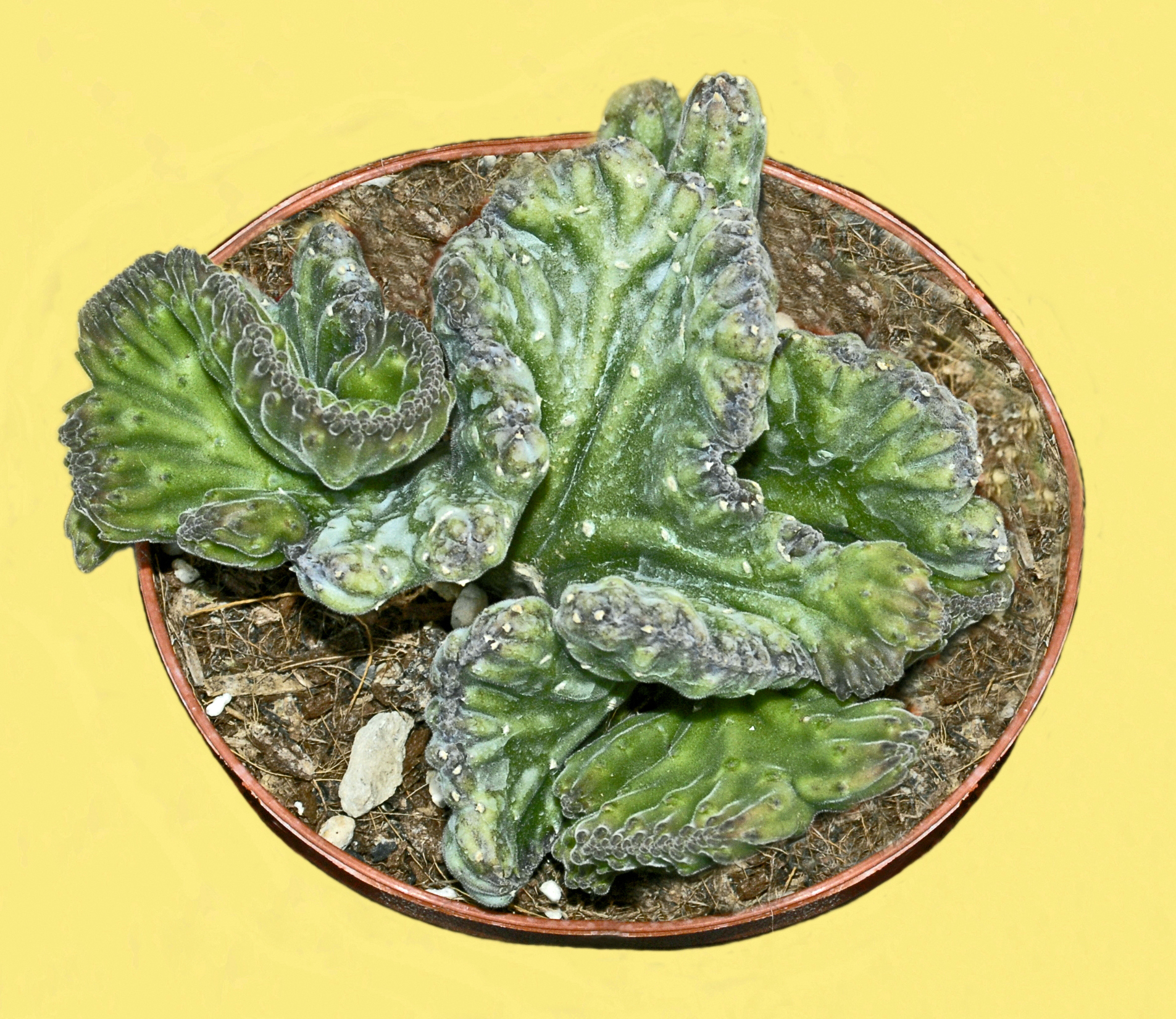 Stapelia hirsuta crestata